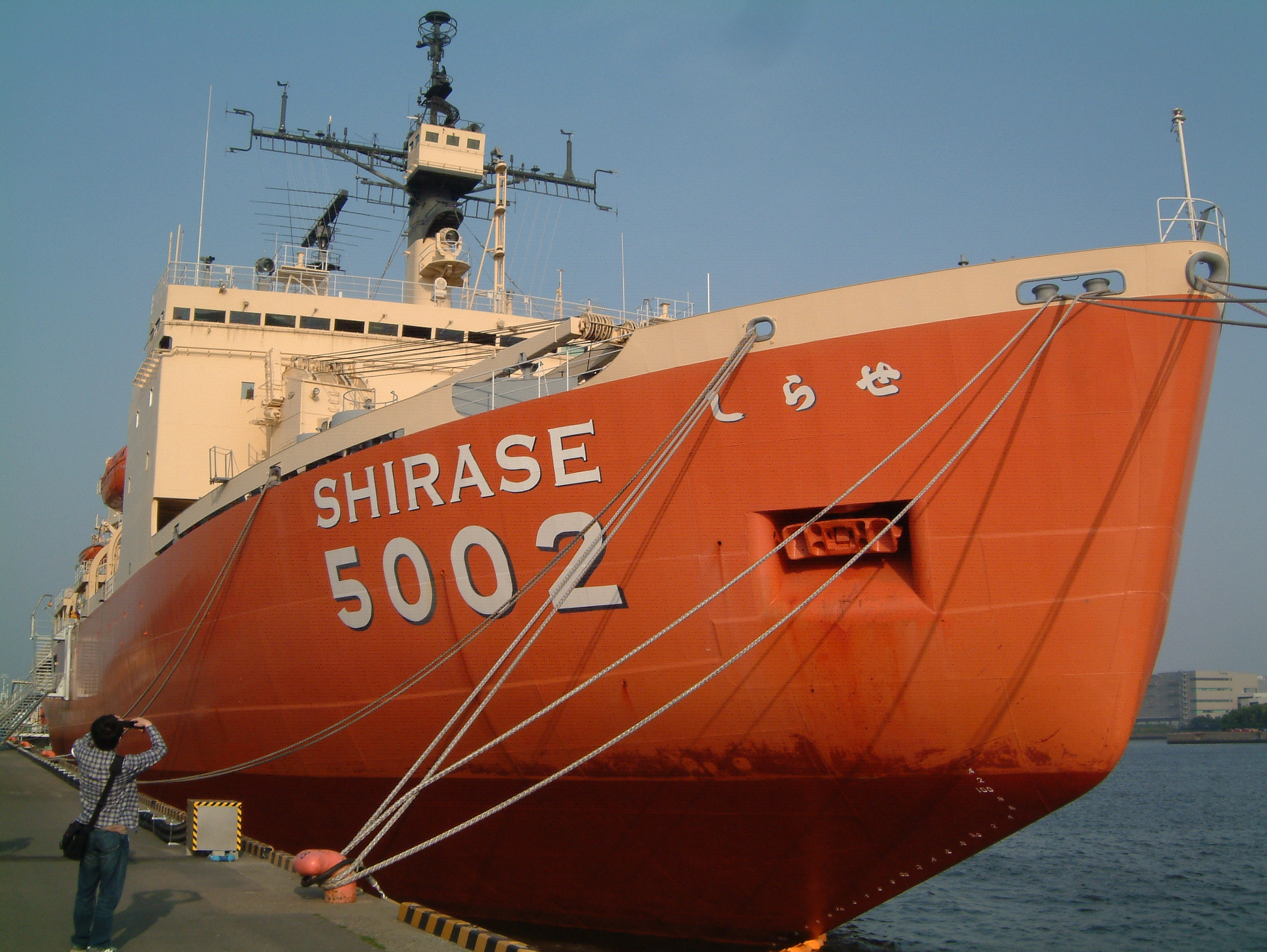 JMSDF (WeatherNews company) AGB5002 SHIRASE(first) class port of Funahashi